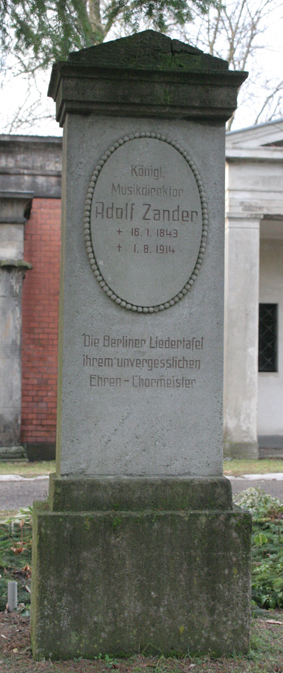 Gravestone of Adolf Zander in the cemetary of the Sophiengemeinde in Berlin